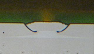 Picture of quantum cascade laser facet with buried heterostructure waveguide